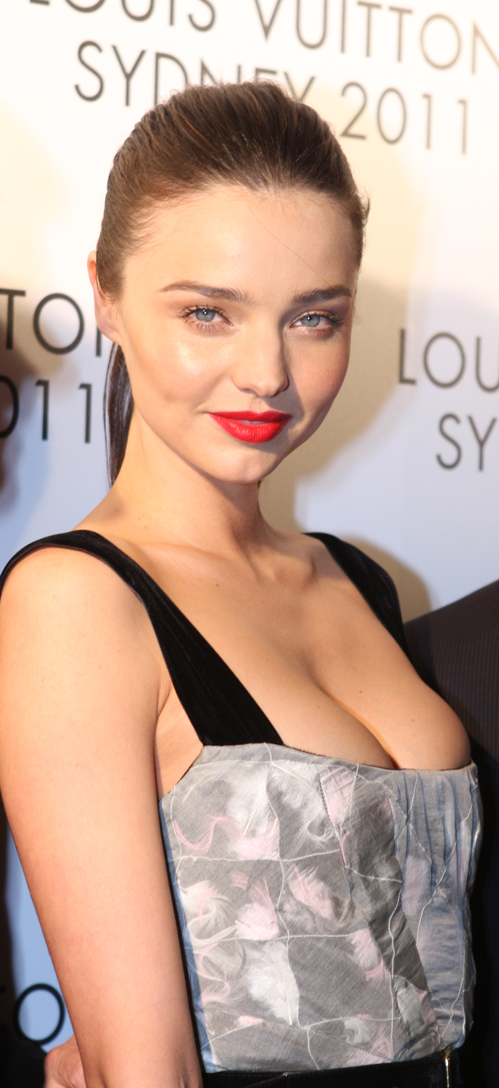 Miranda Kerr at a Louis Vuitton store VIP Party. On December 2, 2011 luxury brand Louis Vuitton opened a new store (Louis Vuitton George Street Maison) in Sydney, Australia, and this was followed up in the evening with a VIP party with an amount of celebrities and other VIPs attending, along with about 30 media personnel covering the black carpet outside the building.